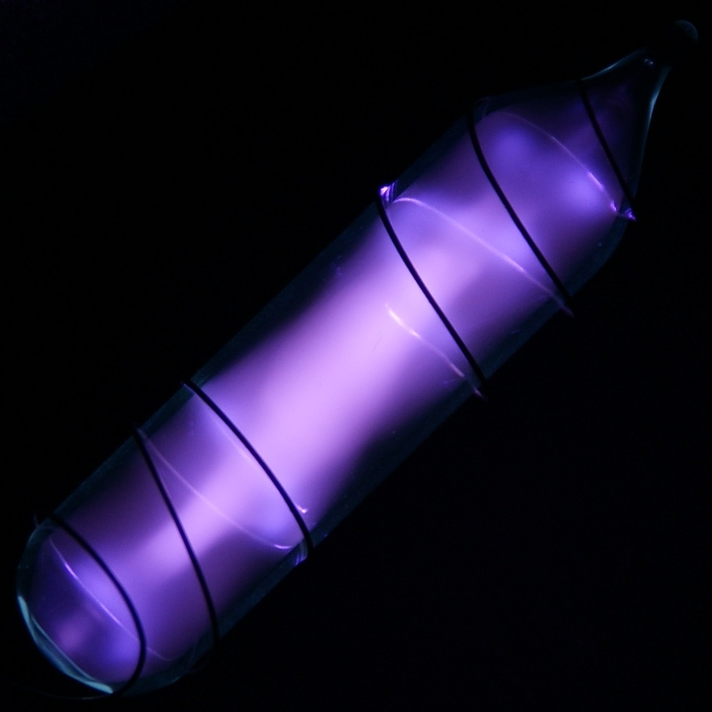 Vial of glowing ultrapure oxygen, O2. Original size in cm: 1 x 5